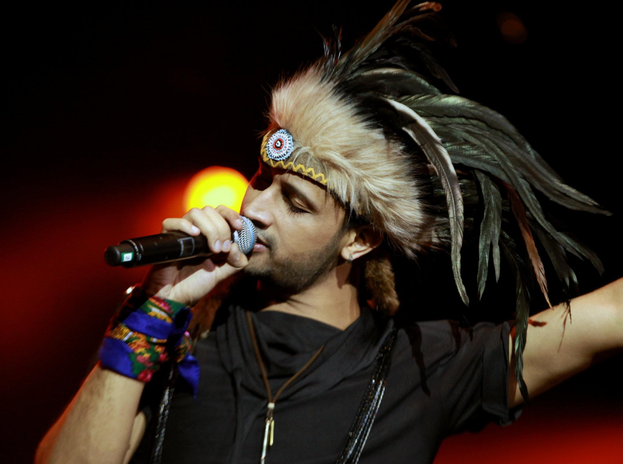 Atif Aslam at o2 arena on 22 april 2012. I am part of Lintons Event and We own this image. It was taken by my camera